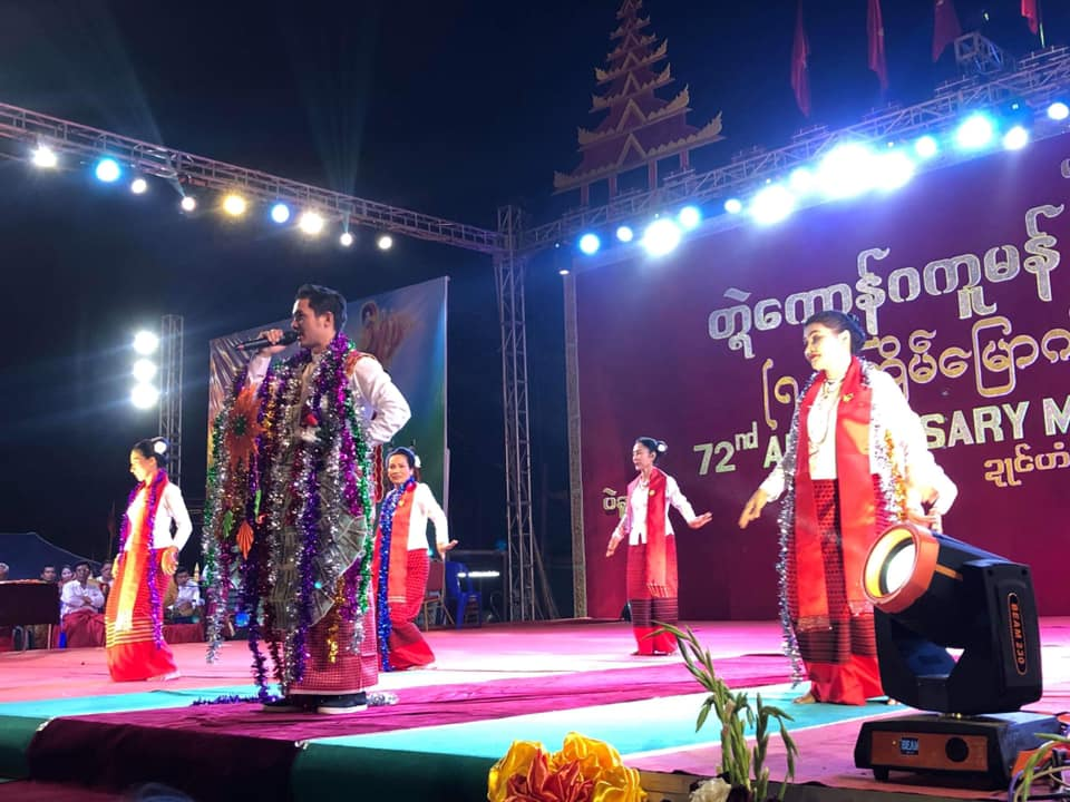 Mon National Day 72nd 2019 Bago